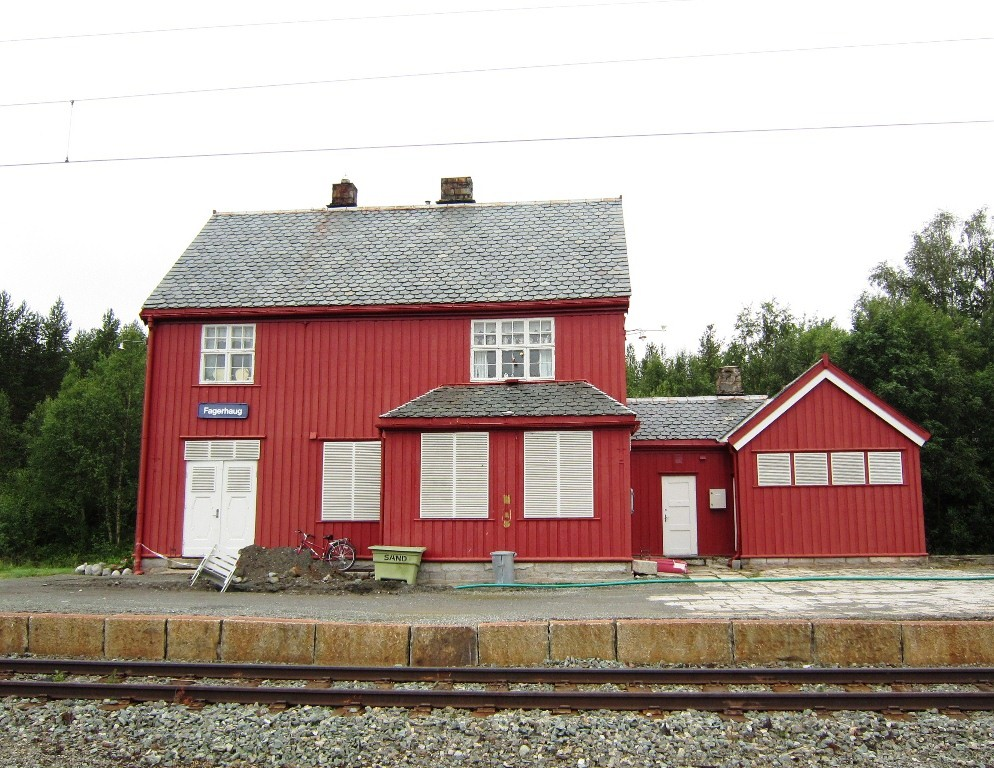 Fagerhaug station on the Dovre line (Sør-Trøndelag, Norway)